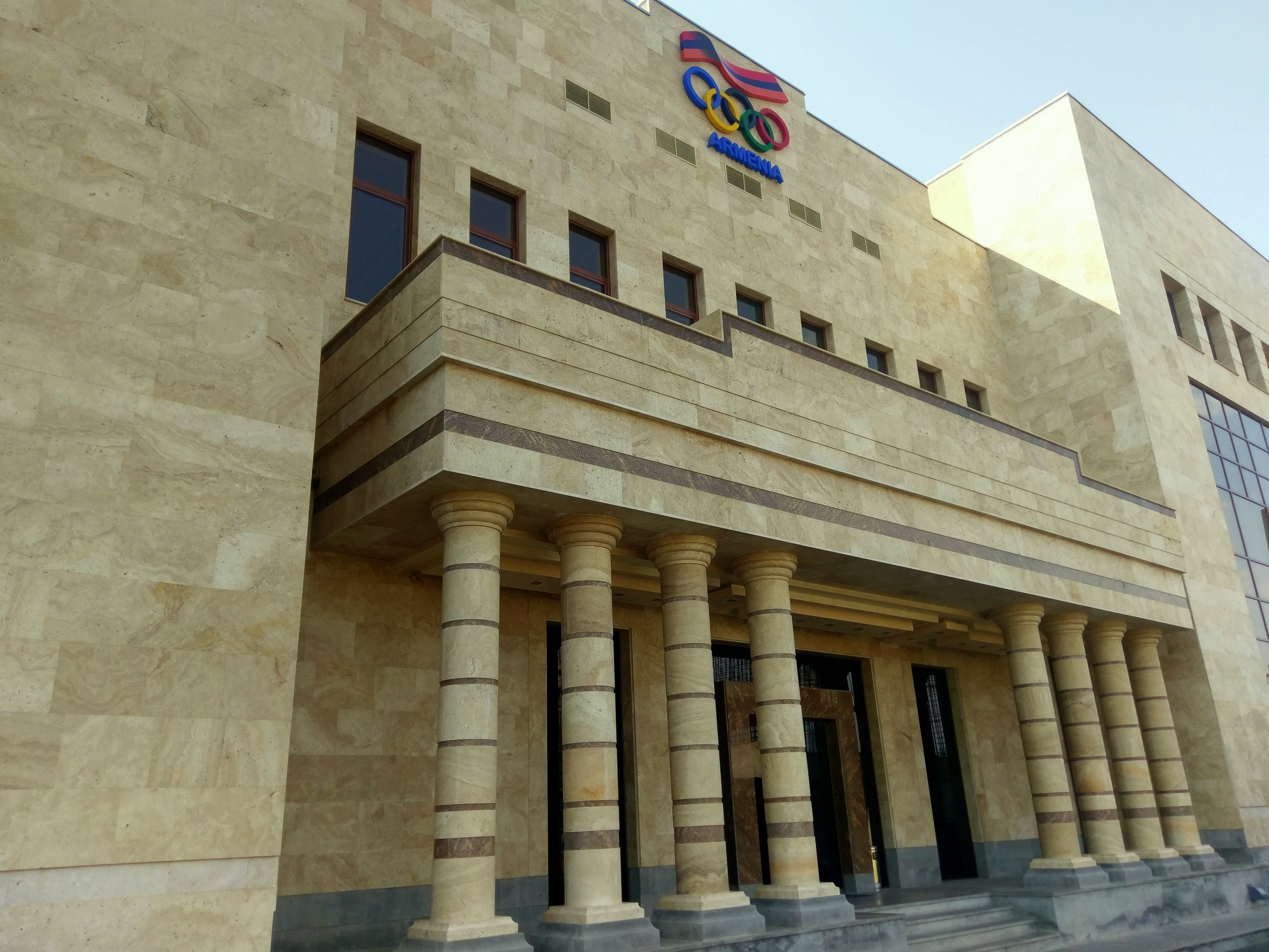 Olympavan